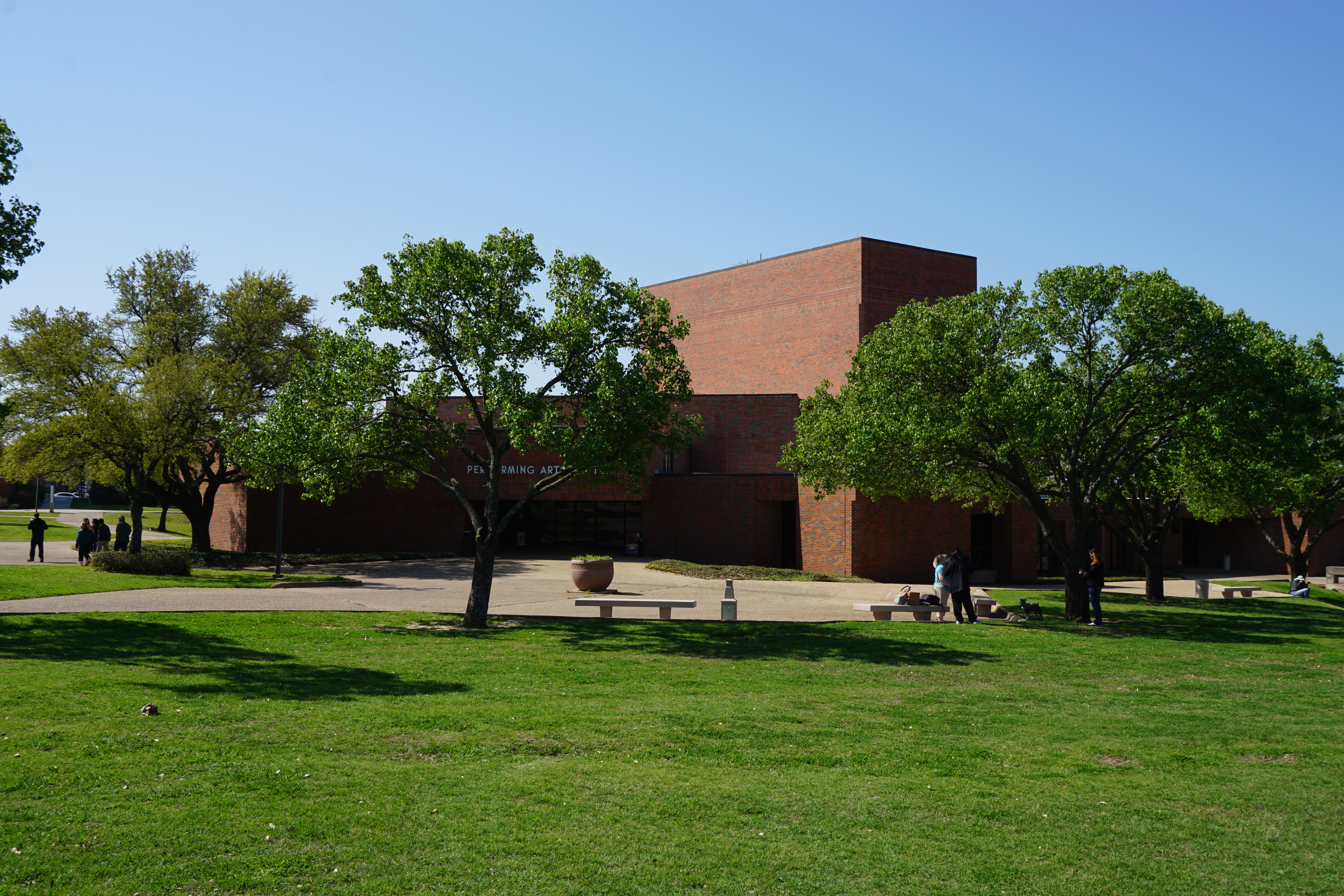 The Performing Arts Center on the campus of Texas A&M University–Commerce in Commerce, Texas (United States).